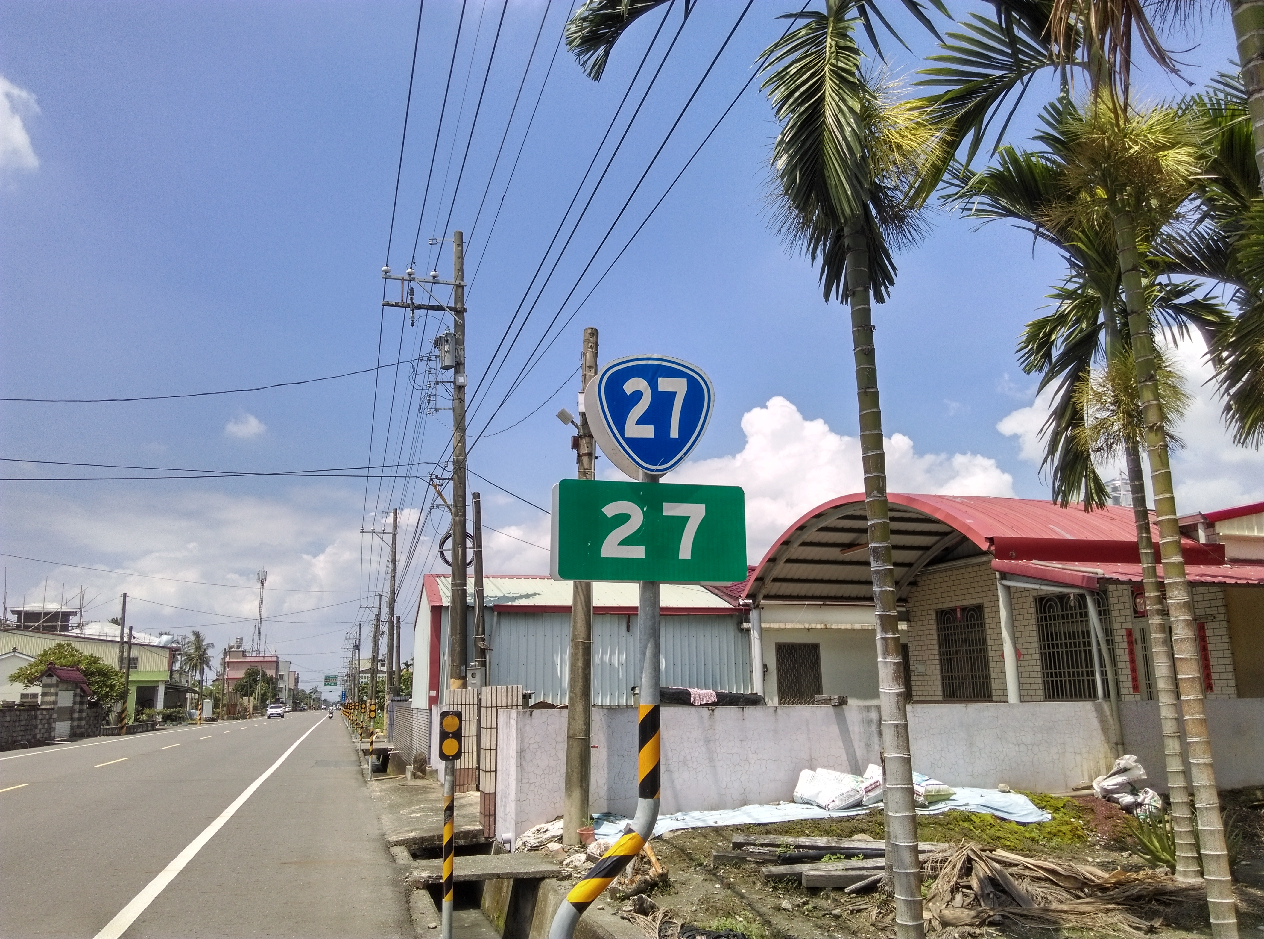 Taiwan Provincial Highway 27 27km Sign.